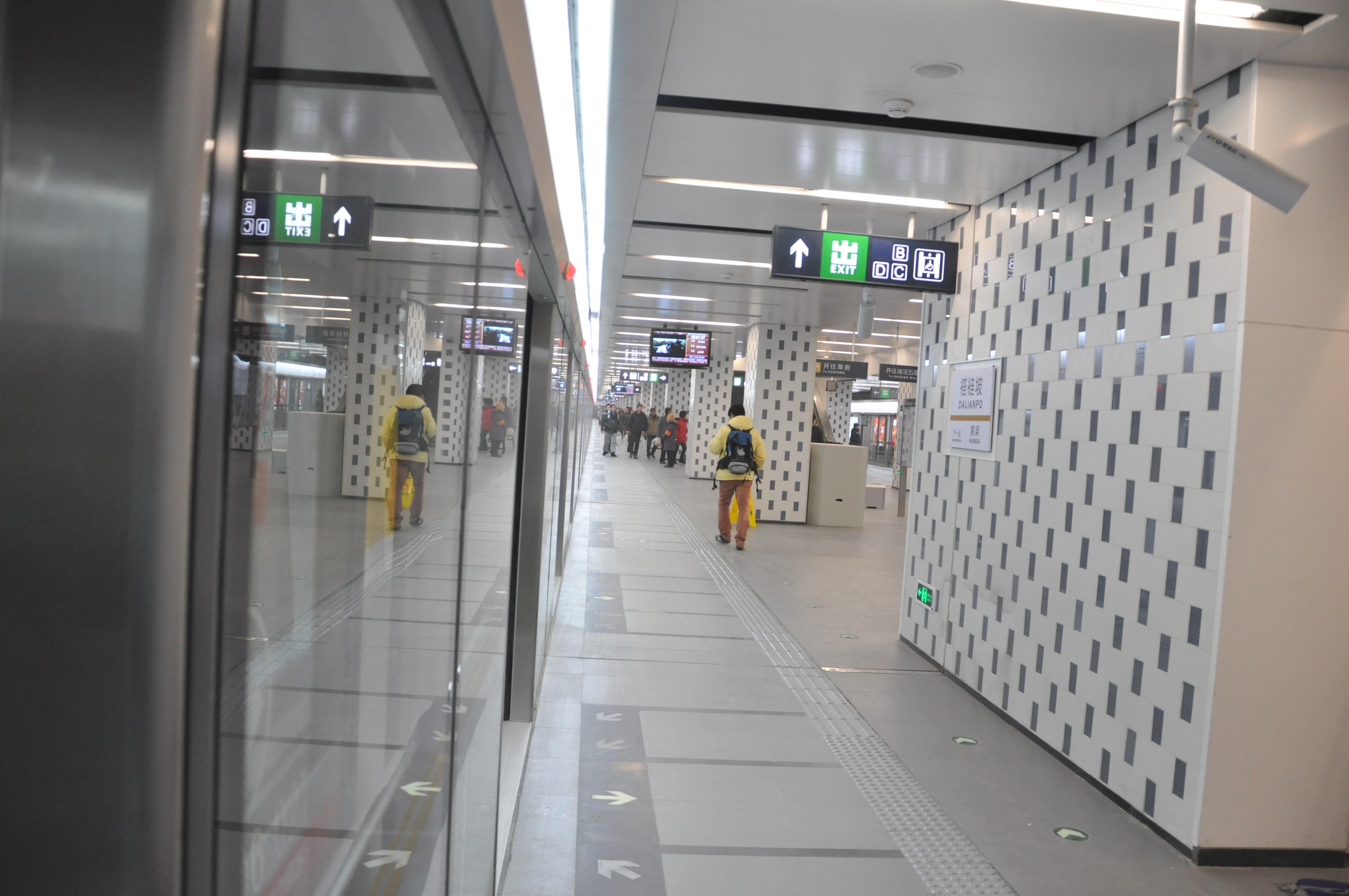 Platform of Dalianpo station, Line 6, Beijing Subway.